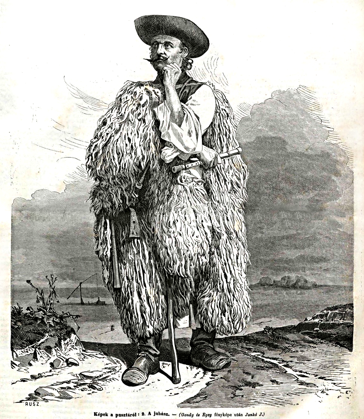 Hungarian shepard